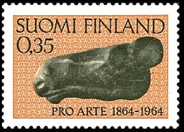 "Elk's Head of Huittinen", Neolithic soapstone figurine (6,000-7,000 BC) on a Finnish 1964 stamp.